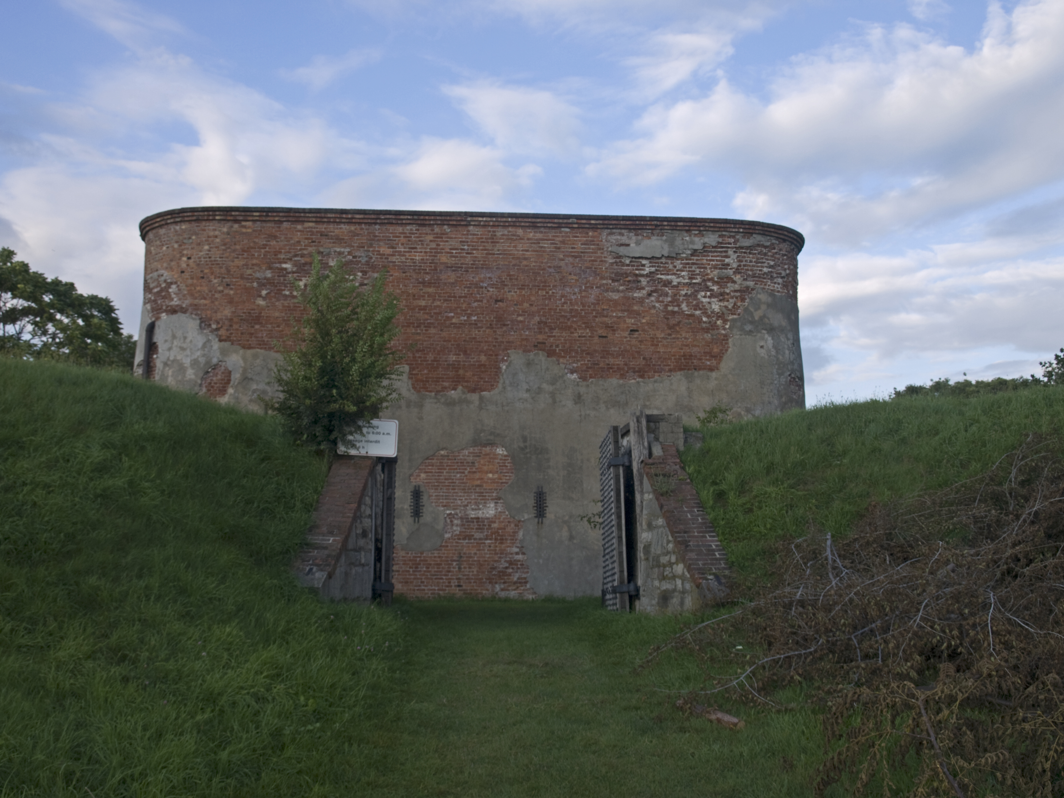 Mississauga Point Lighthouse National Historic Site of Canada